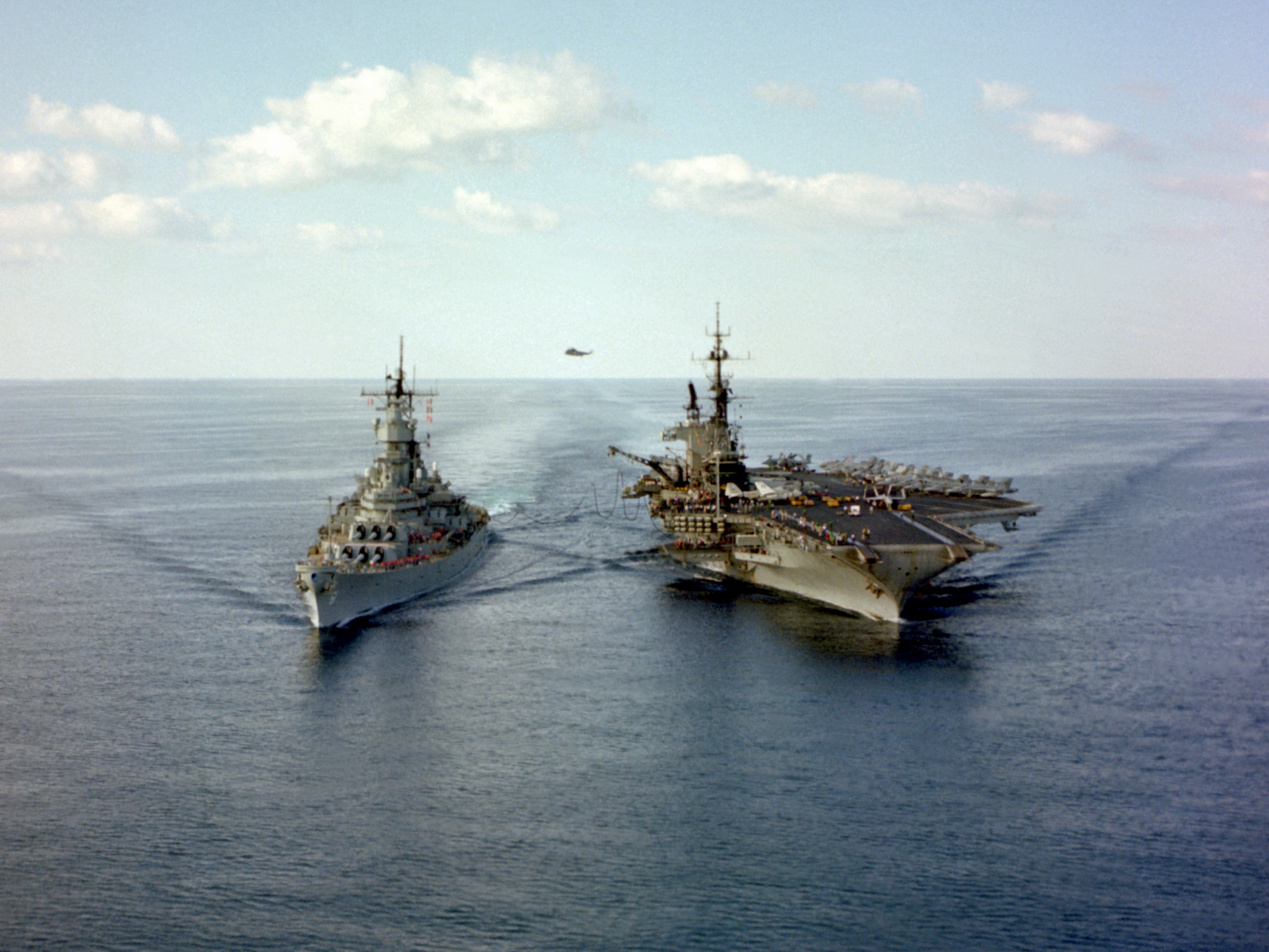 The U.S. Navy aircraft carrier USS Midway (CV-41) conducts an underway replenishment with the battleship USS Iowa (BB-61). Midway and Iowa were in the Persian Gulf area as part of Battle Group Alpha.